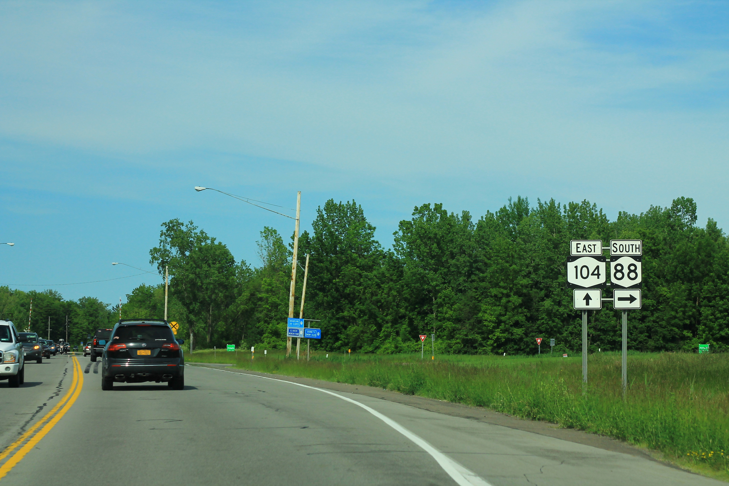 NY104 East - NY88 South Signs